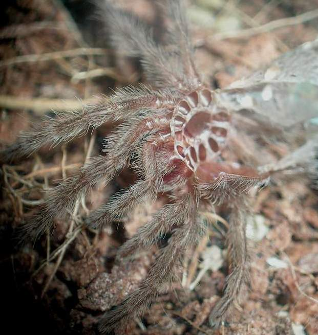 spider external skeleton